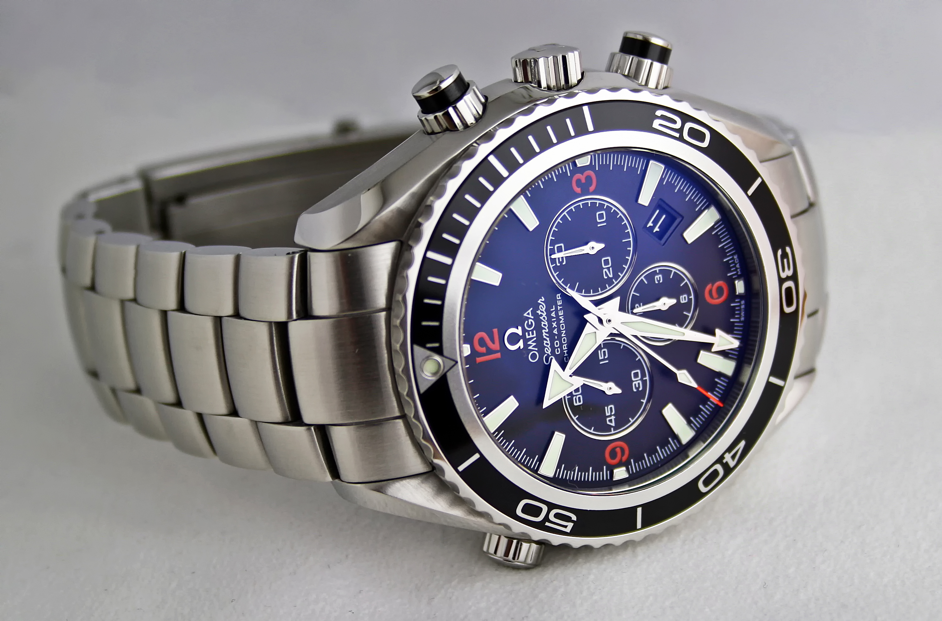 The Omega Seamaster Planet Ocean Chronograph is a 600m / 1968ft water resistant automatic divers wristwatch.